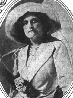 May Tully, from a 1912 newspaper. A white woman, unsmiling, wearing a tailored jacket and a widebrimmed hat; she has a corsage attached near her waist.